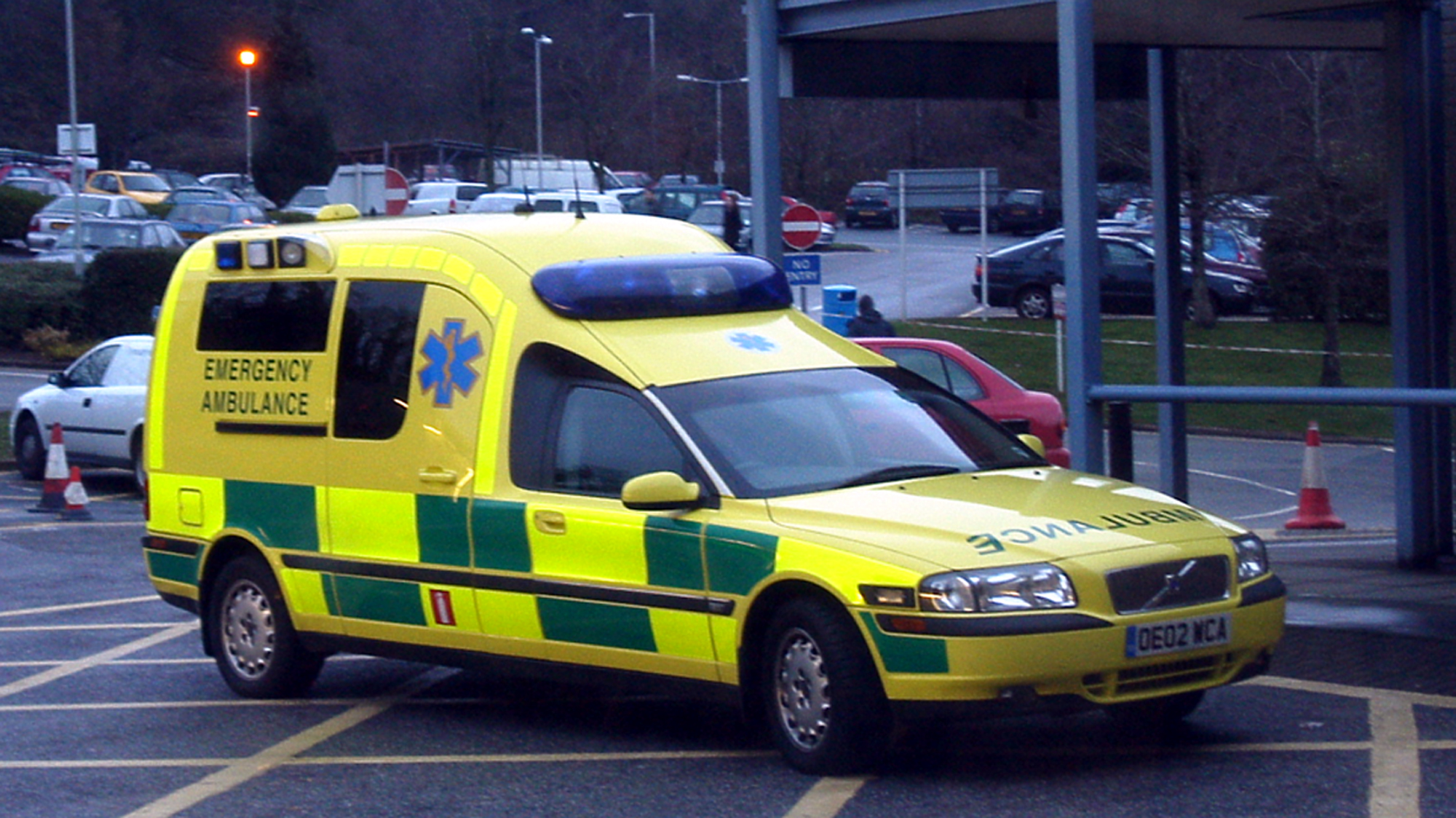 31-Dec-02PlymouthWestcountry AmbulanceOE02WCA